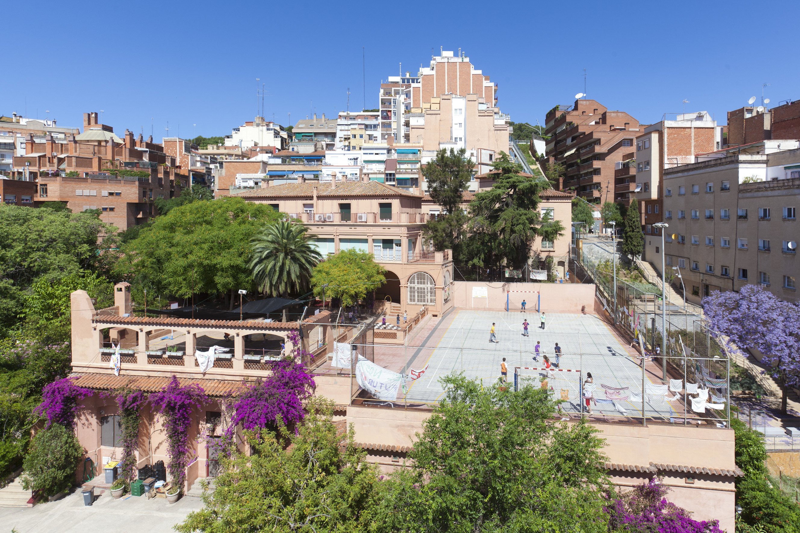 Historical Routes at the Horta-Guinardó District Administration in Barcelona This image was provided to Wikimedia Commons by the Horta-Guinardó District Administration in Barcelona as part of an ongoing cooperative project with Amical Viquipèdia. English | +/−